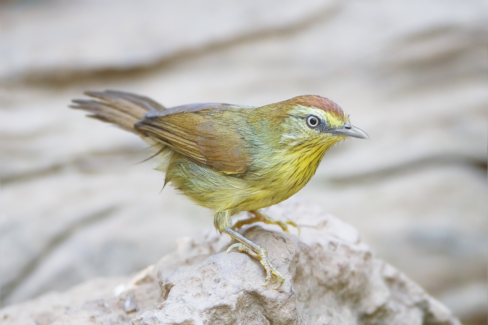 Striped Tit-babbler (Macronus gularis) subsp. chersonesophilus, Song Phi Nong, Kaeng Krachan, Phetchaburi, Thailand